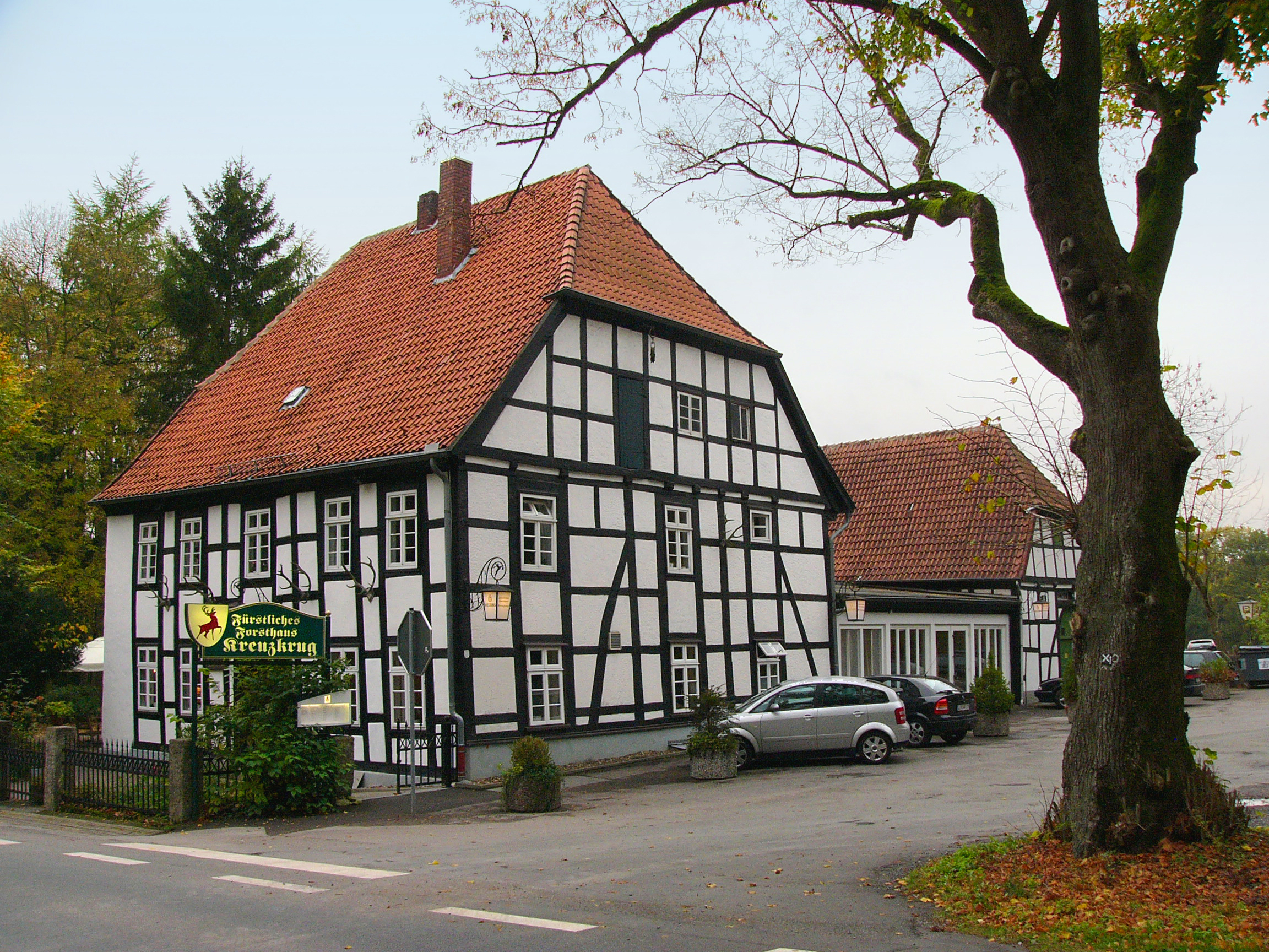 Kreuzkrug at Fürstenallee, Teutoburg Forest, Germany